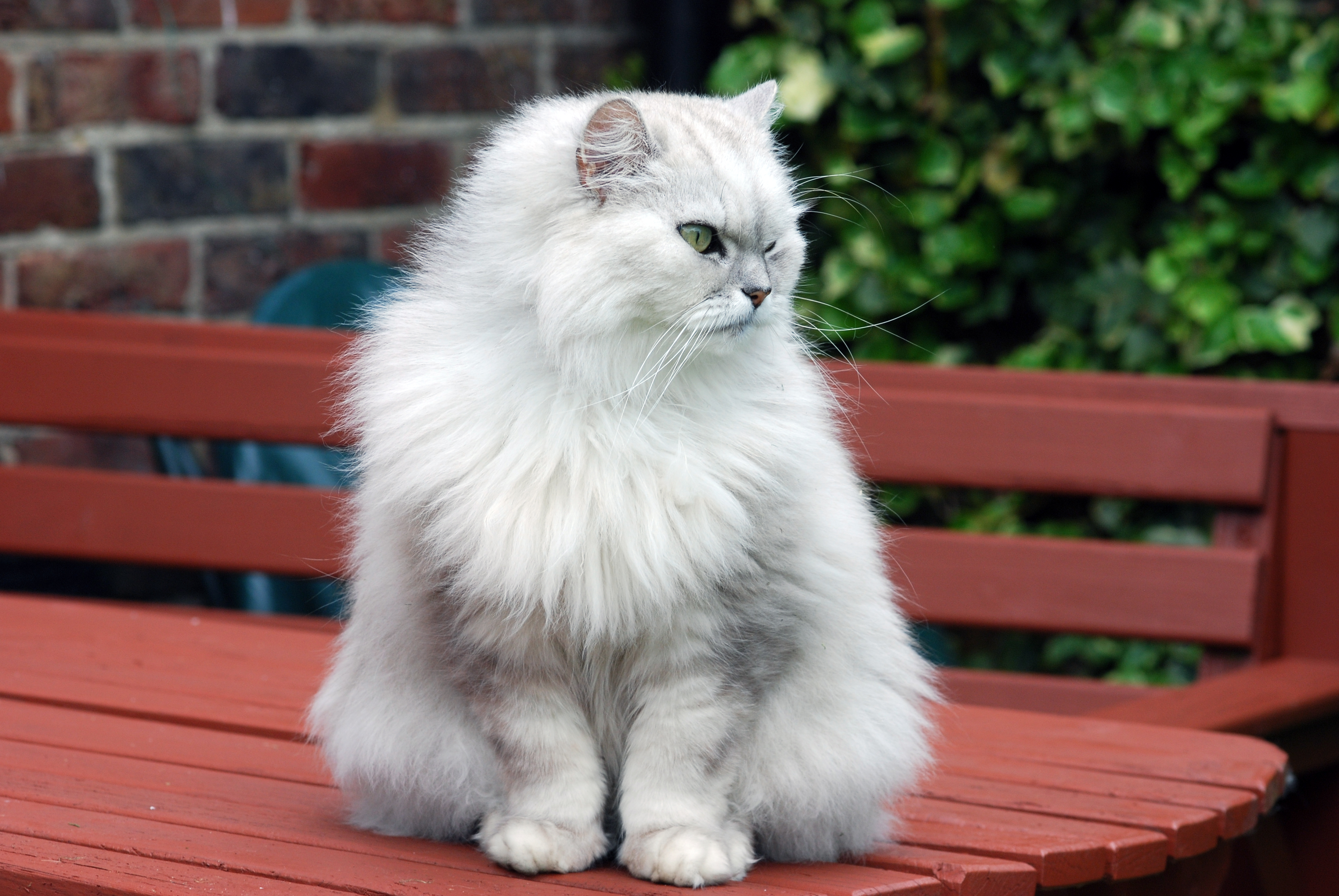 sitting on the newly-repainted garden table-thankfully,it had dried :-)